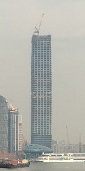 Sinar Mas Center, Shanghai